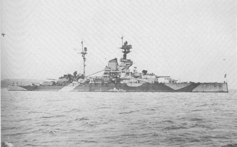 THE ROYAL NAVY DURING THE SECOND WORLD WAR. ADMIRALTY OFFICIAL COLLECTION.A gift to Russia; HMS ROYAL SOVEREIGN (renamed ARCHANGELSK) after being handed over to the Russian Navy. Also handed over were the submarines URSULA, UNISON, UNBROKEN and SUNFISH as well as eight ex-American destroyers.